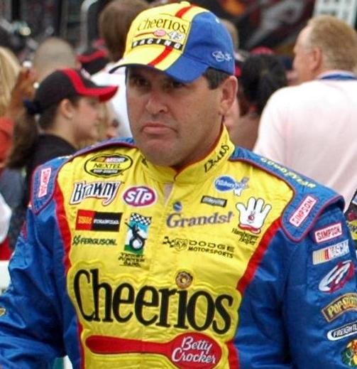 Cropped photo now focusing on NASCAR driver Jeff Green Location: Lowe's Motor Speedway at Charlotte, North Carolina